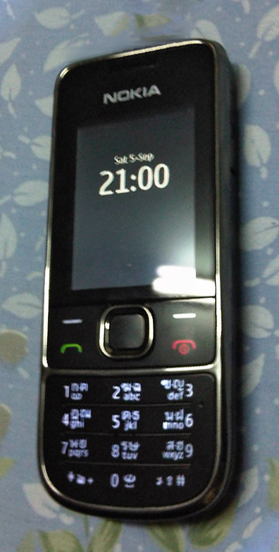 Nokia™ 2700 Classic Have all functions that my father want. Clock, Camera, Group ring tone, Radio and etc. -D Taken with Blackberry® Curve™ 8900